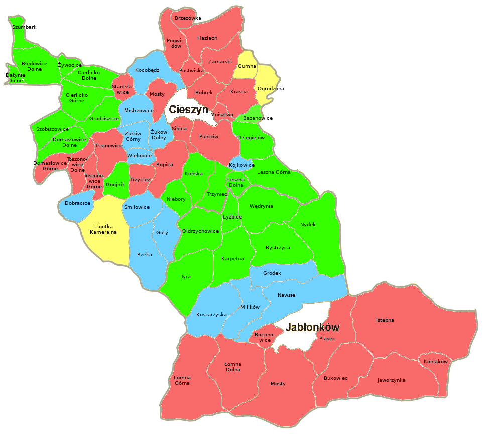 Austria-Hungary 1907 elections results, Walhbezirk 13, round 1